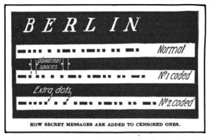 Example of obfuscated Morse code used to send covert messages during WWI. 'Extra dots' and 'abnormal spaces' in the word 'BERLIN.' See Charles E. Apgar recordings for context.Text in image: 'How secret messages are added to censored ones.'Original caption: 'The Above "Code" Diagram Shows How Secret Cipher Messages Could be Interspersed Through Regular Messages.'